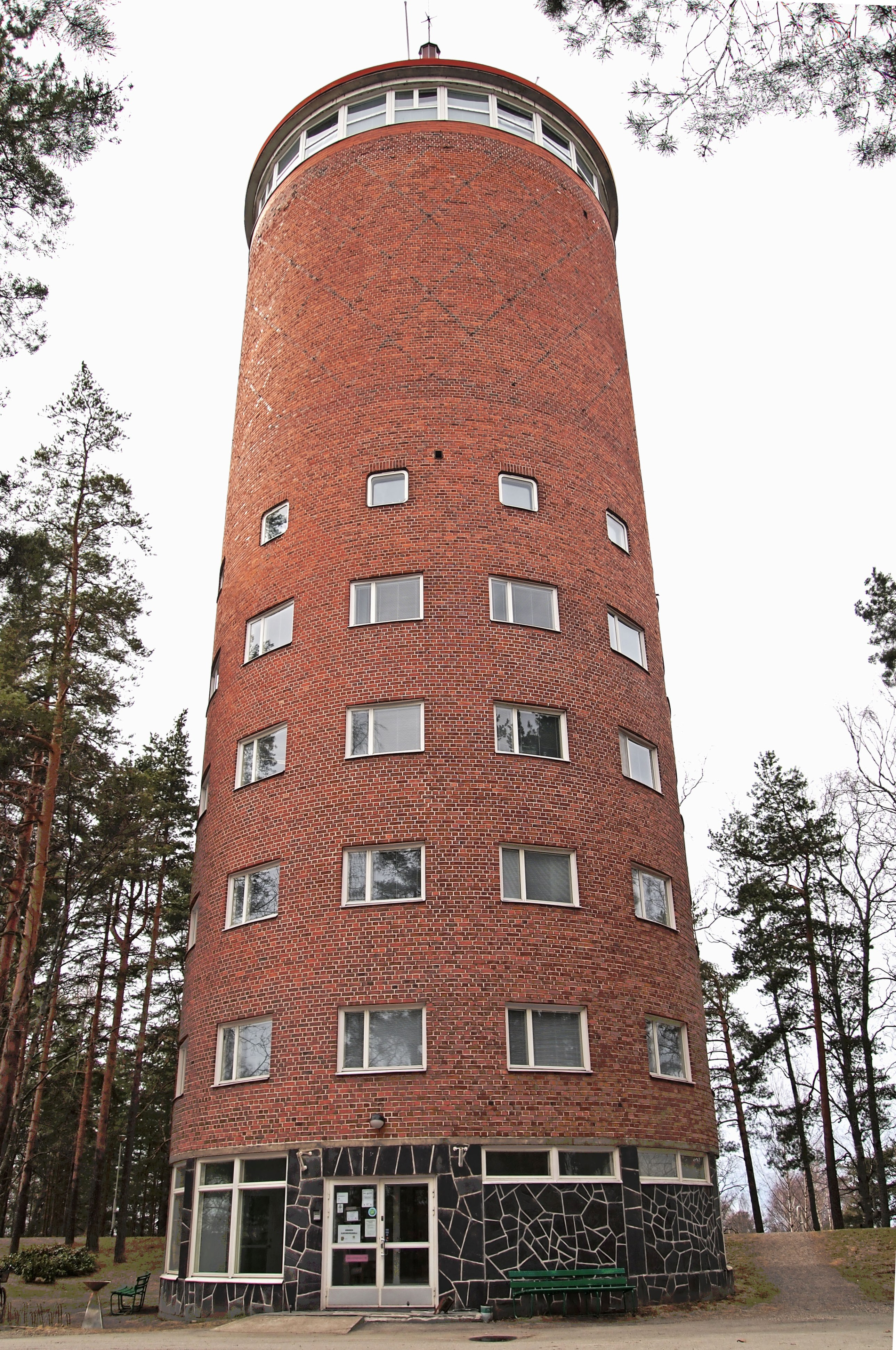 Water tower in Heinola.